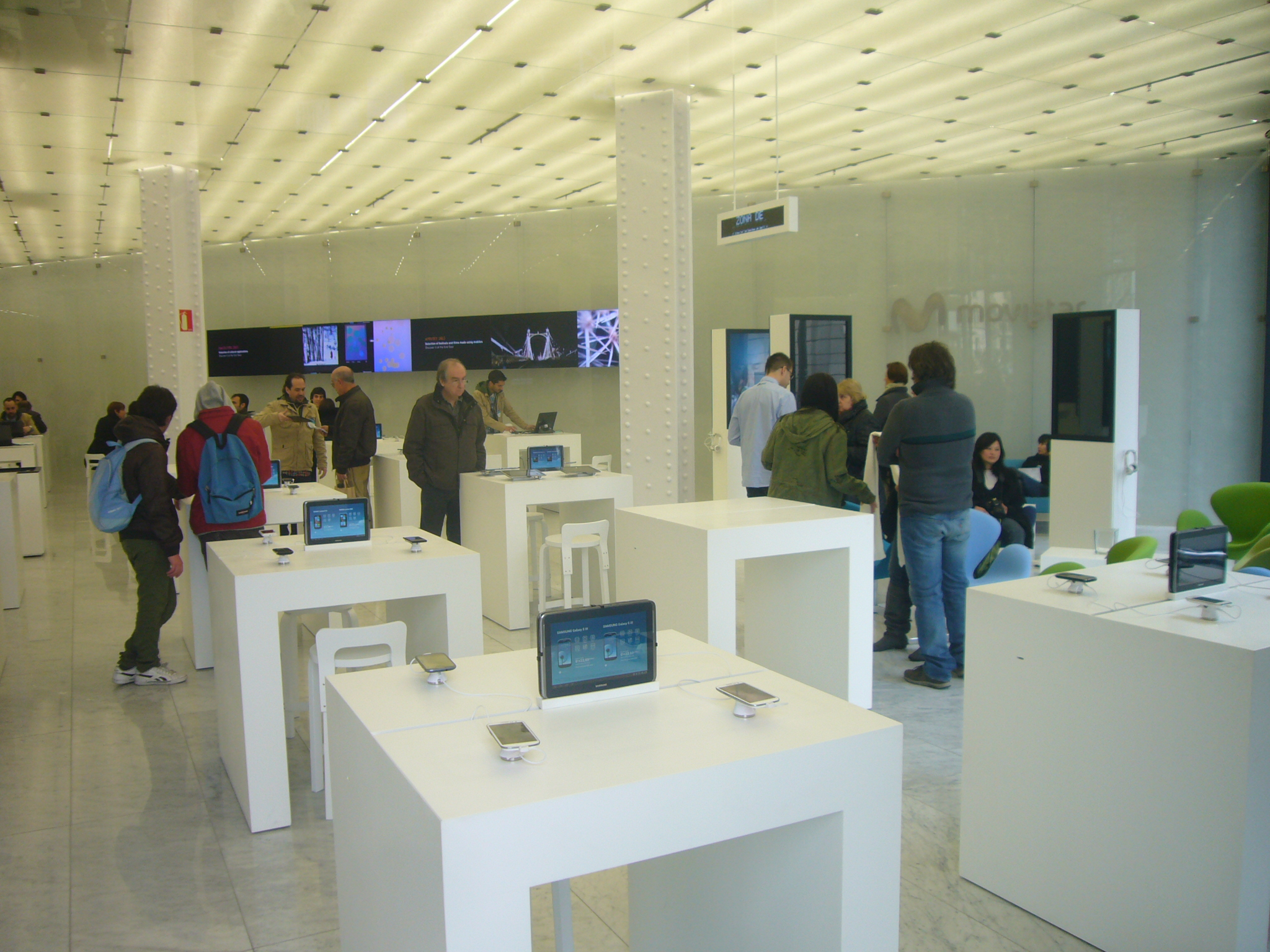 Mobile World Centre, located in Barcelona. Floor 0 (Movistar showroom)